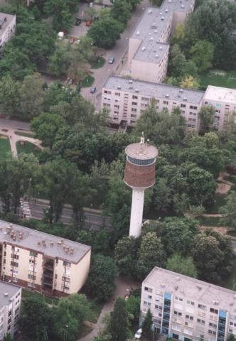 Water tower (45m high, built in 1962) in Kiskunhalas, Hungary, aerialphotography